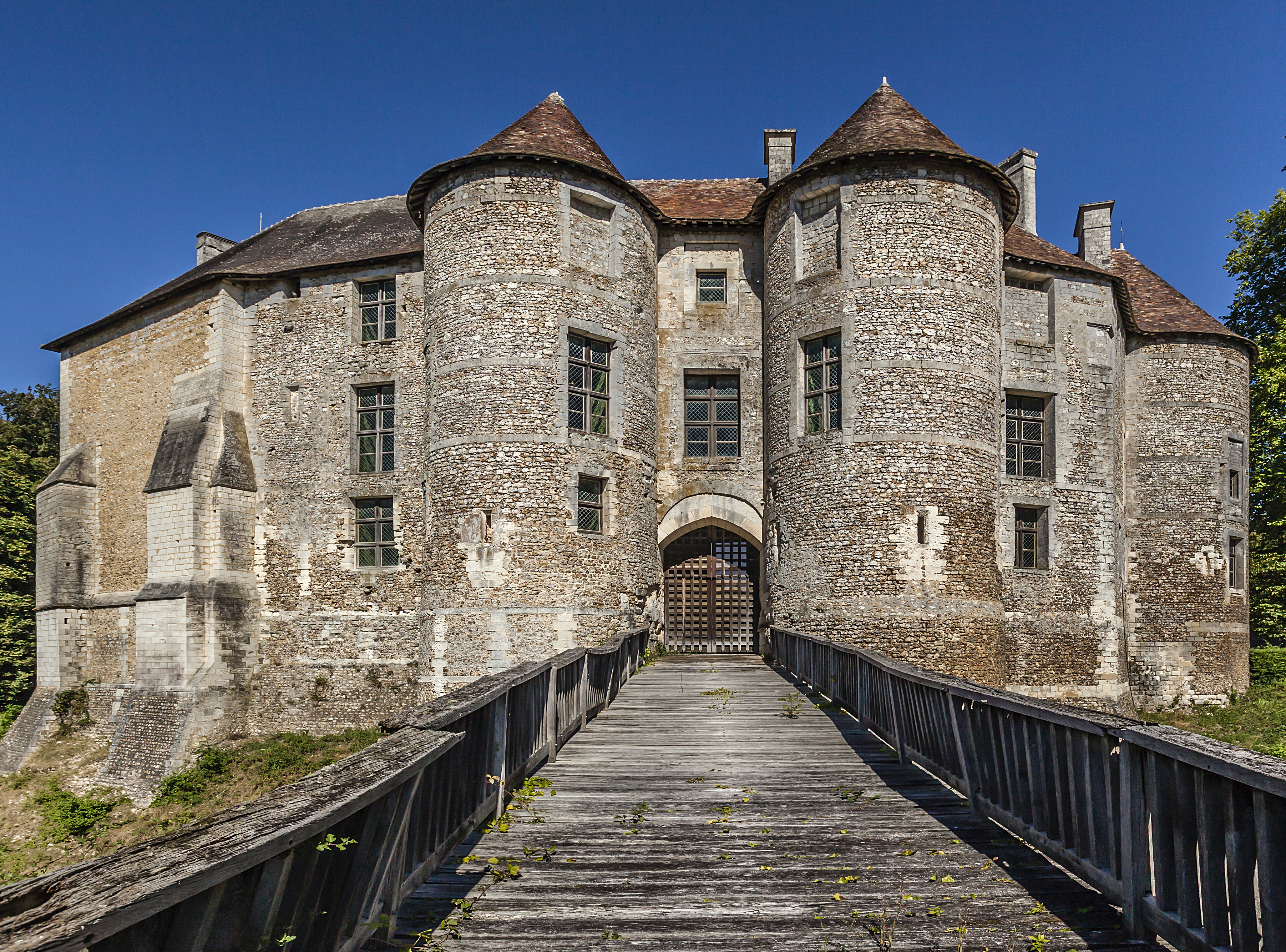 Castle Harcourt is located in the town of Harcourt in Normandy (France). the architecture is medieval. Since 1 January 2000, the General Council of the Eure is the owner. .